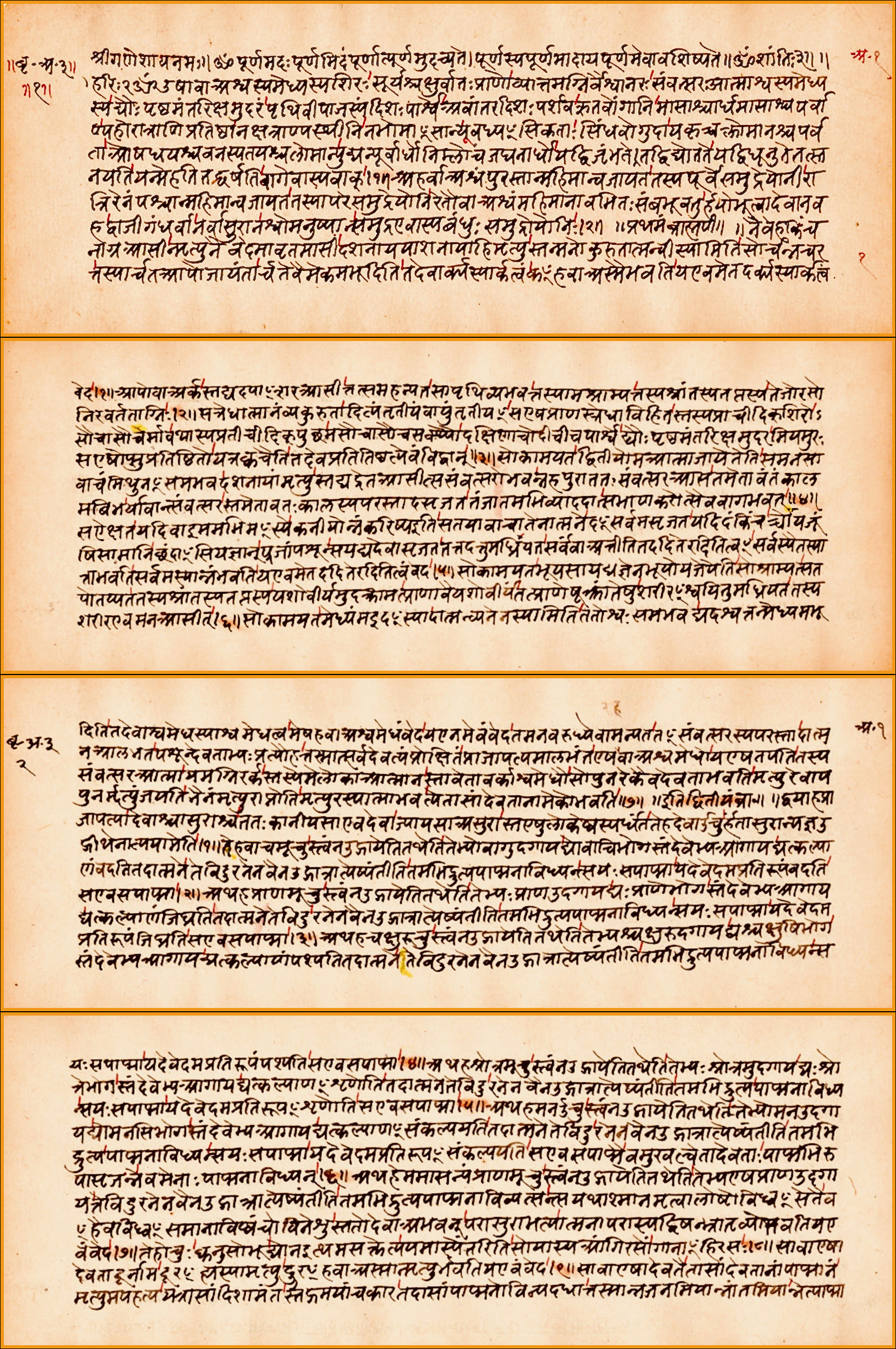 The early Upanishads (Upanisad, Upanisat) are scriptures of Hinduism. Variously dated by scholars to have been composed between 900 BCE to about 200 BCE, these texts are in Sanskrit language and embedded within a layer of the Vedas. They contain a mixture of philosophy and mystical speculations, many set in the form of dialogues or pedagogic style. Their central teachings include the concepts of Atman (soul, self) and Brahman (metaphysical reality). The above image is from surviving leaves of a Brihadaranyaka Upanishad manuscript. It is page 1 front (recto), 1 back (verso), 2 front, 2 back of the manuscript. The Brihadaranyaka Upanishad is the oldest known Upanishad, dated to between 900 to 600 BCE (pre-Buddhist era). It is a key text to the contemporary Vedanta traditions of Hinduism (Vaishnavism, Shaivism, Shaktism, Smarta tradition). These manuscripts was purchased in the 19th-century and are now preserved in the Schoenberg Center manuscript collection, Penn Library, USA. Language: Sanskrit Script: Devanagari The photo above is of a 2D artwork of a text that is over 2,000 years old, from a manuscript that was produced before the 19th-century. Therefore Wikimedia Commons PD-Art licensing guidelines apply. Any rights I have as a photographer is herewith donated to wikimedia commons under CC 4.0 license. बृहदारण्यक उपनिषद्